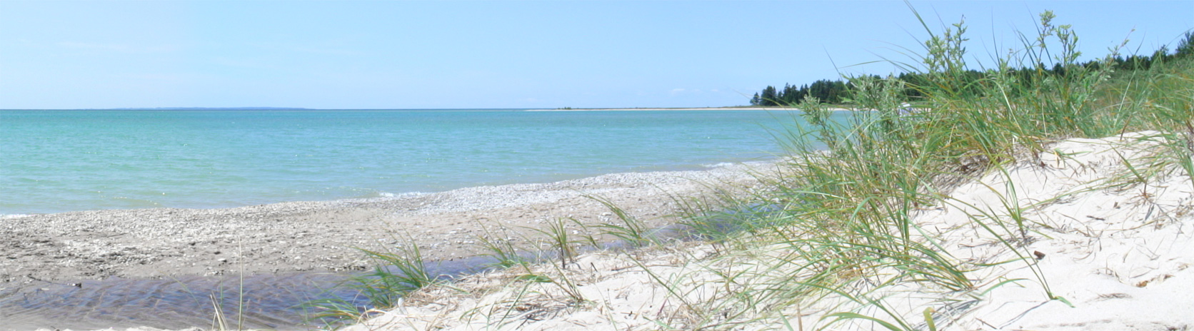 Photo of Iron Ore Bay in southern Beaver Island, facing south, with North Fox Island visible on the horizon.